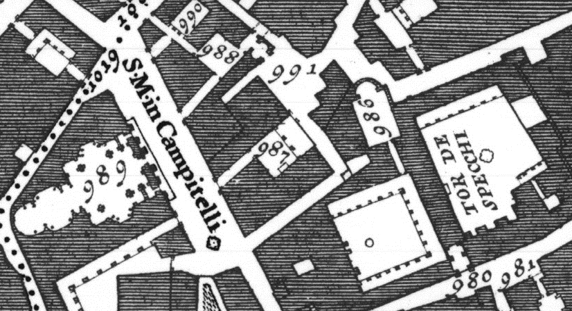 Map of Nolli